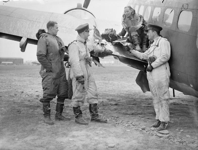 Royal Air Force- 1939-1945- Coastal Command The crew of a Hudson of No 224 Squadron, N7264/QX-Q, inspecting damage to their aircraft sustained during an operation to support troops landing at Andalsnes in Norway, April 1940.